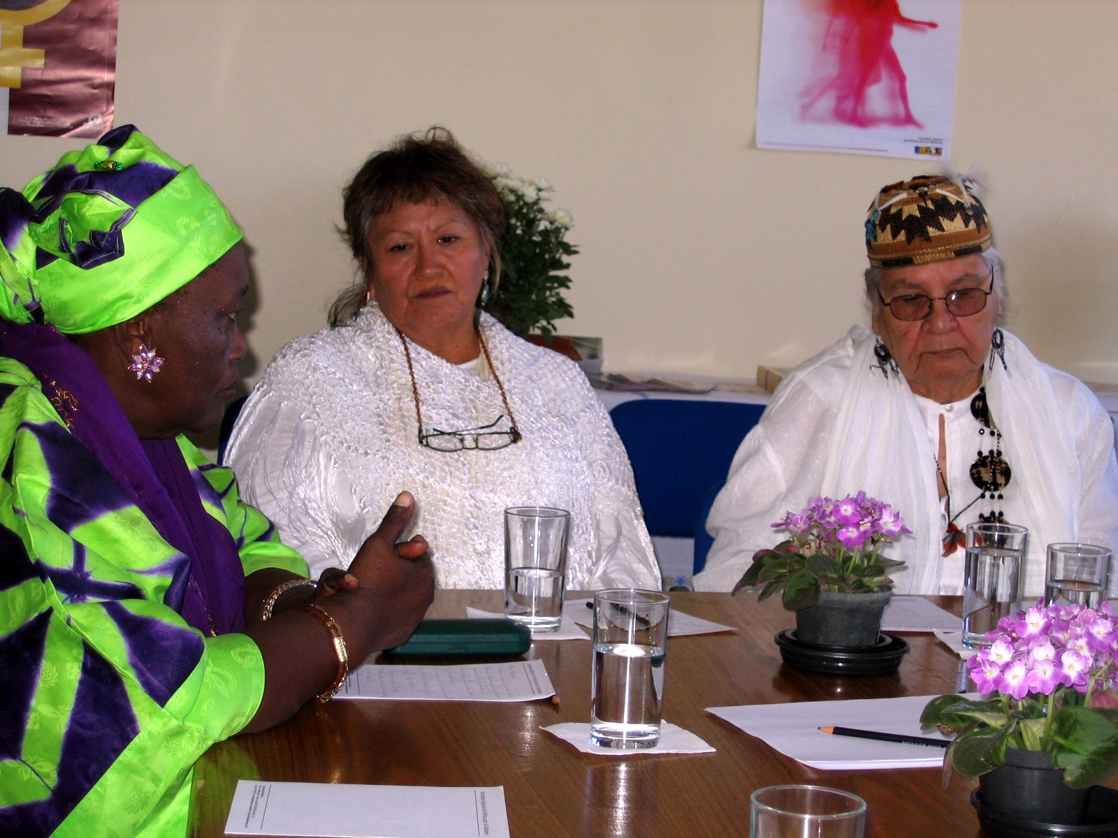 Grandmothers Bernadette, Margareth & Aggie Pilgrim